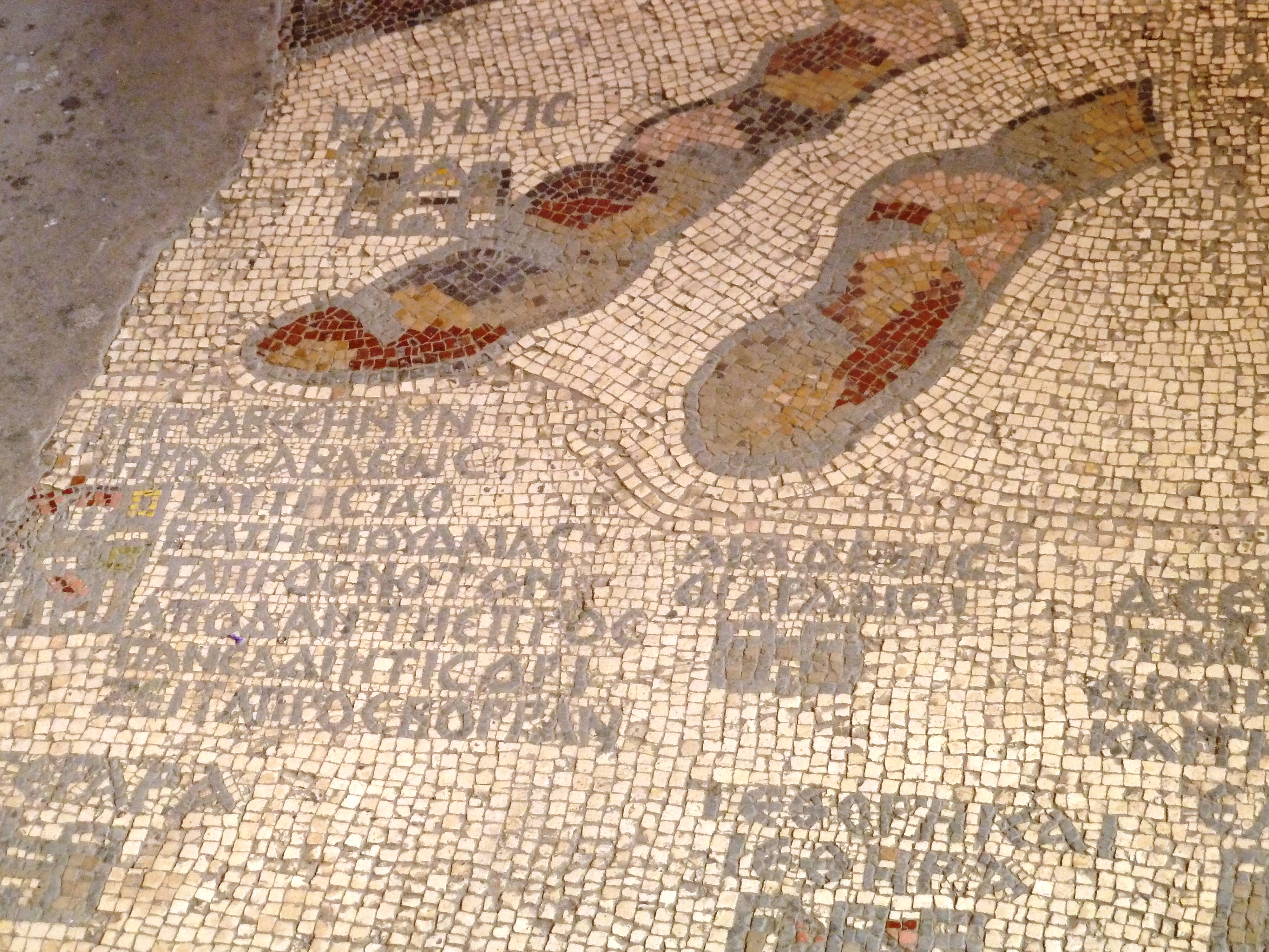 Byzantine floor mosaic map at St. George Church, Madaba, Jordan